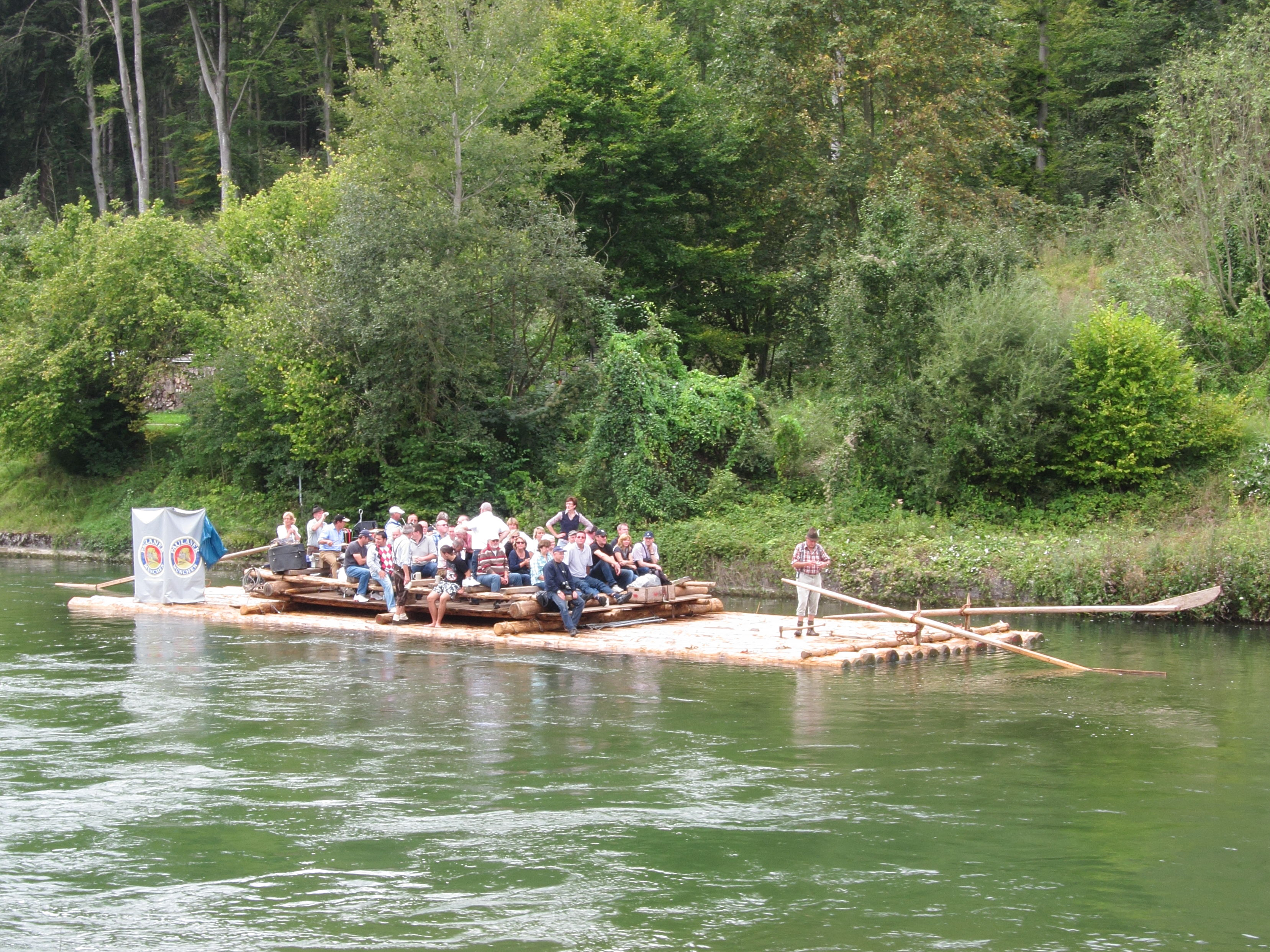 Raft on river Isar (Isar canal)